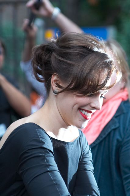 Rachel McAdams stops to sign autographs for a fan.